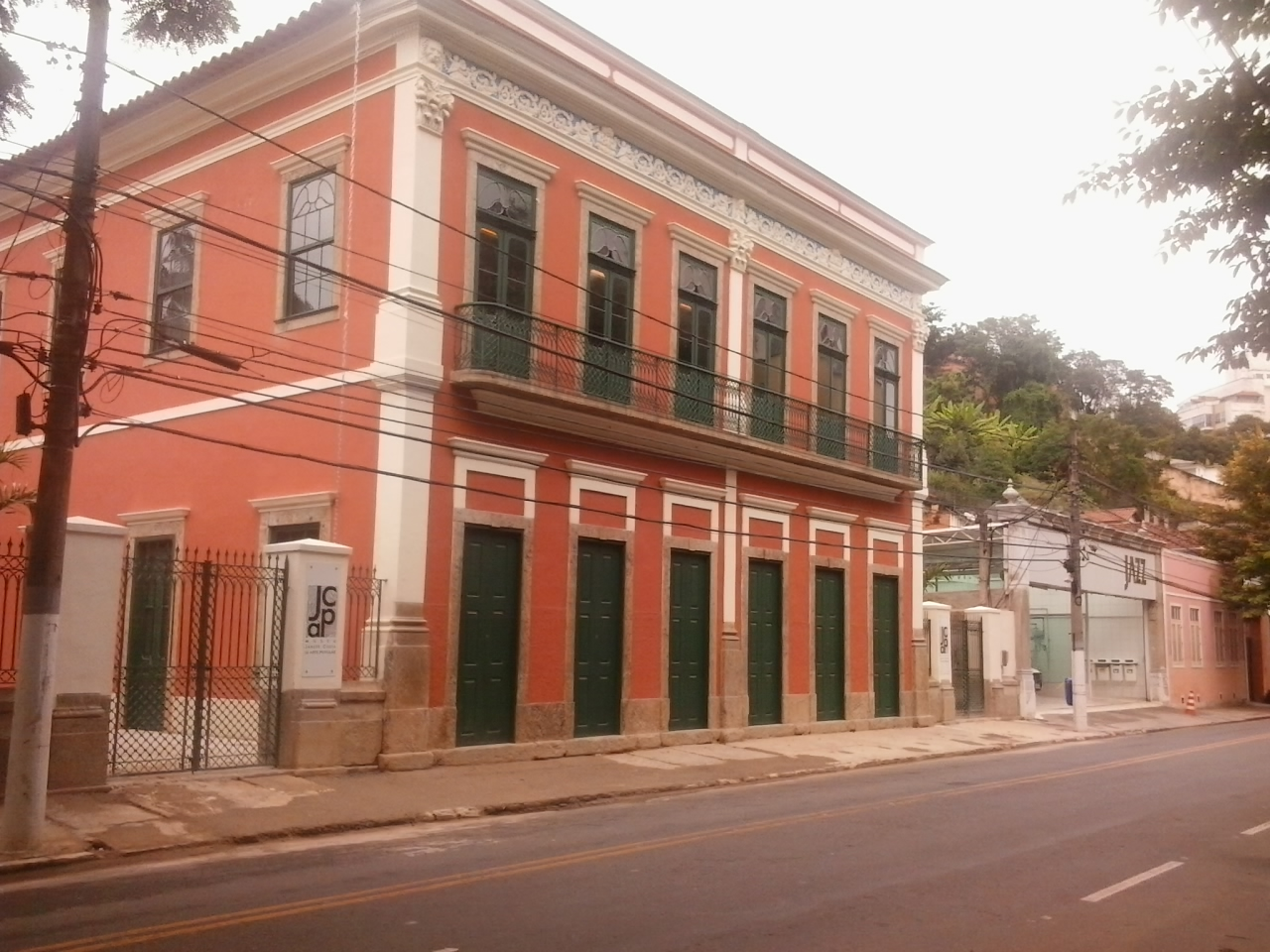 Janete Costa Popular Art Museum, São Domingos, Niterói, Rio de Janeiro, Brazil.